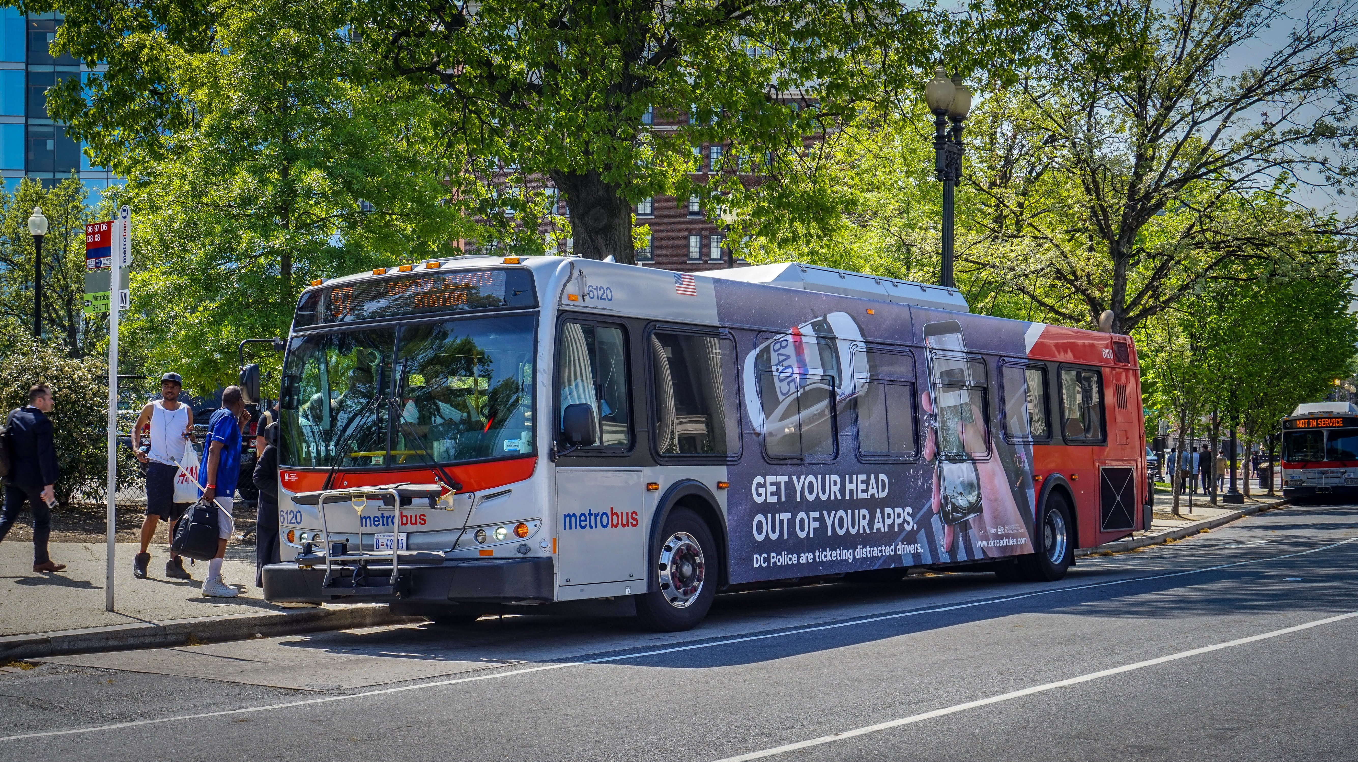 Here is a WMATA 2006 New Flyer D40LFR sitting outside Union Station on Route 97